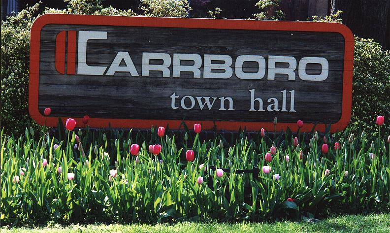 The town hall sign for Carrboro, North Carolina, surrounded by tulips on April 1, en:2000. Photo by user:geogre and given to public domain.